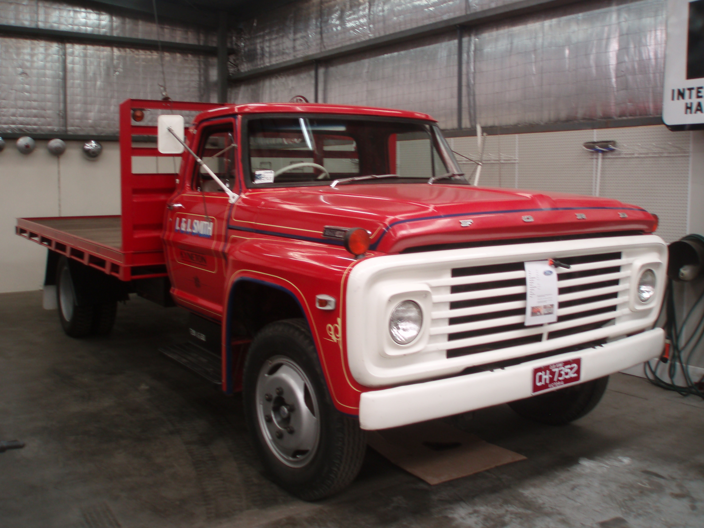 Ford F-Series truck. Part of a private collection.